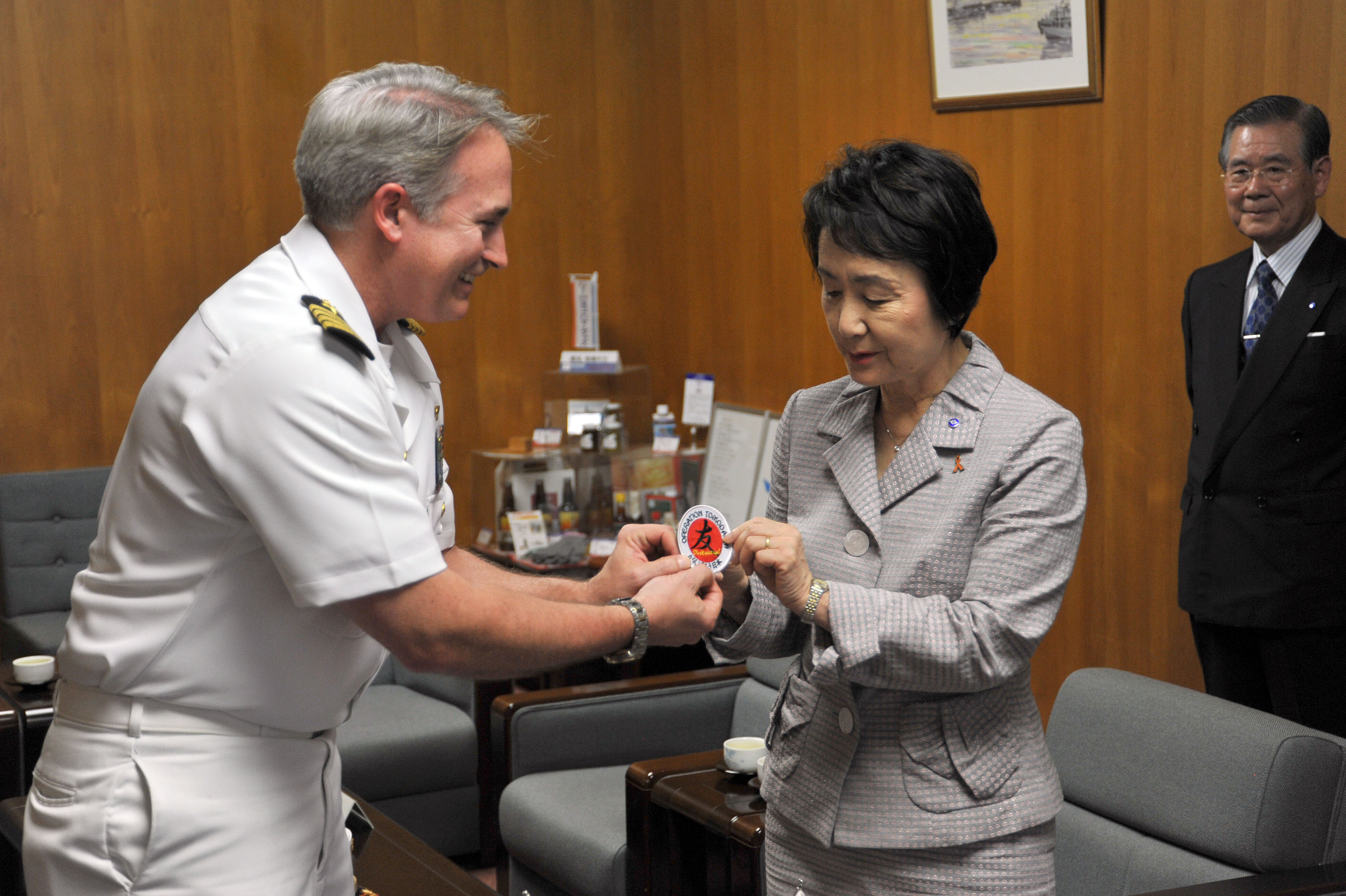 YOKOHAMA, Japan (May 10, 2011) Capt. Eric Gardner, left, commanding officer of Naval Air Facility Atsugi, presents Yokohama Mayor Fumiko Hayashi an Operation Tomodachi patch. Gardner visited the mayor to discuss the role of Naval Air Facility Atsugi in the upcoming Yokohama Disaster Preparedness Drill at Naval Support Facility Kamiseya. (U.S. Navy photo by Tim McGough/Released)